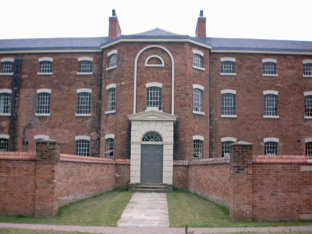 Southwell - Workhouse. Main entrance to Southwell Workhouse